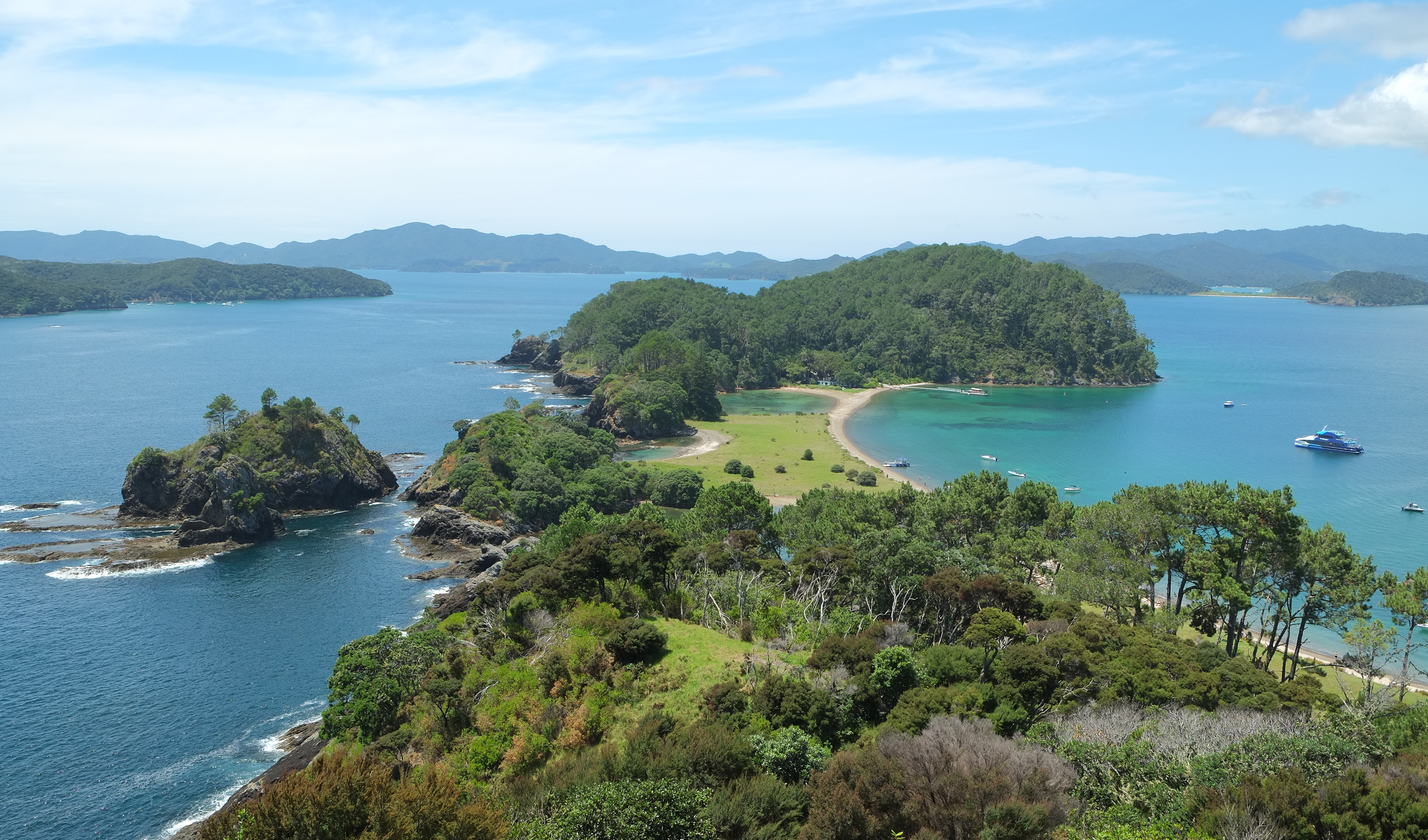 Lookout over Motuarohia Island (Roberton Island) with one of the twin lagoons visible, the other mostly obscured by trees